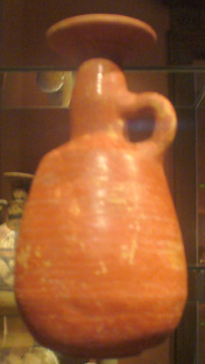 Red Slip Phoenician Ware; Kunsthistorisches Museum at Vienna